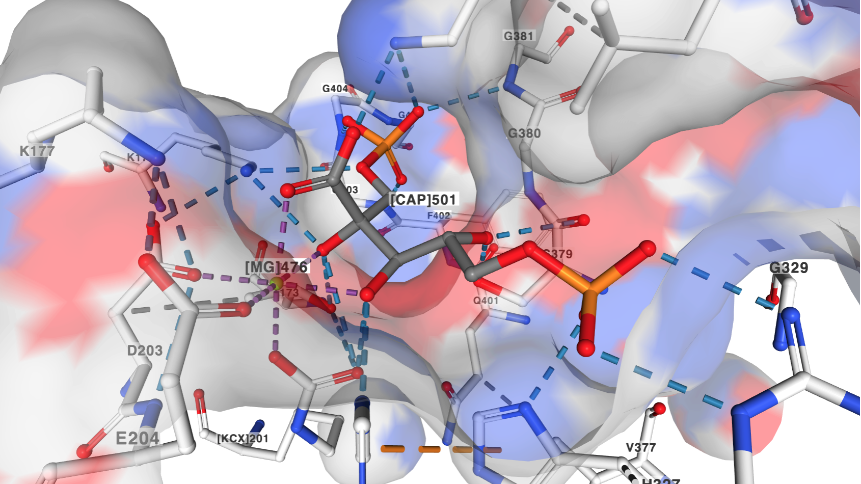 A 3D depiction of the intermediate compound 2-Carboxyarabinitol-1,5-Bisphosphate in the active site of spinach RuBisCO. This picture was taken of the active site taken from ligand view of [CAP]501:A from 1IR1 on the PDB (Crystal Structure of Spinach Ribulose-1,5-Bisphosphate Carboxylase/Oxygenase (Rubisco) Complexed with CO2, Mg2+ and 2-Carboxyarabinitol-1,5-Bisphosphate).